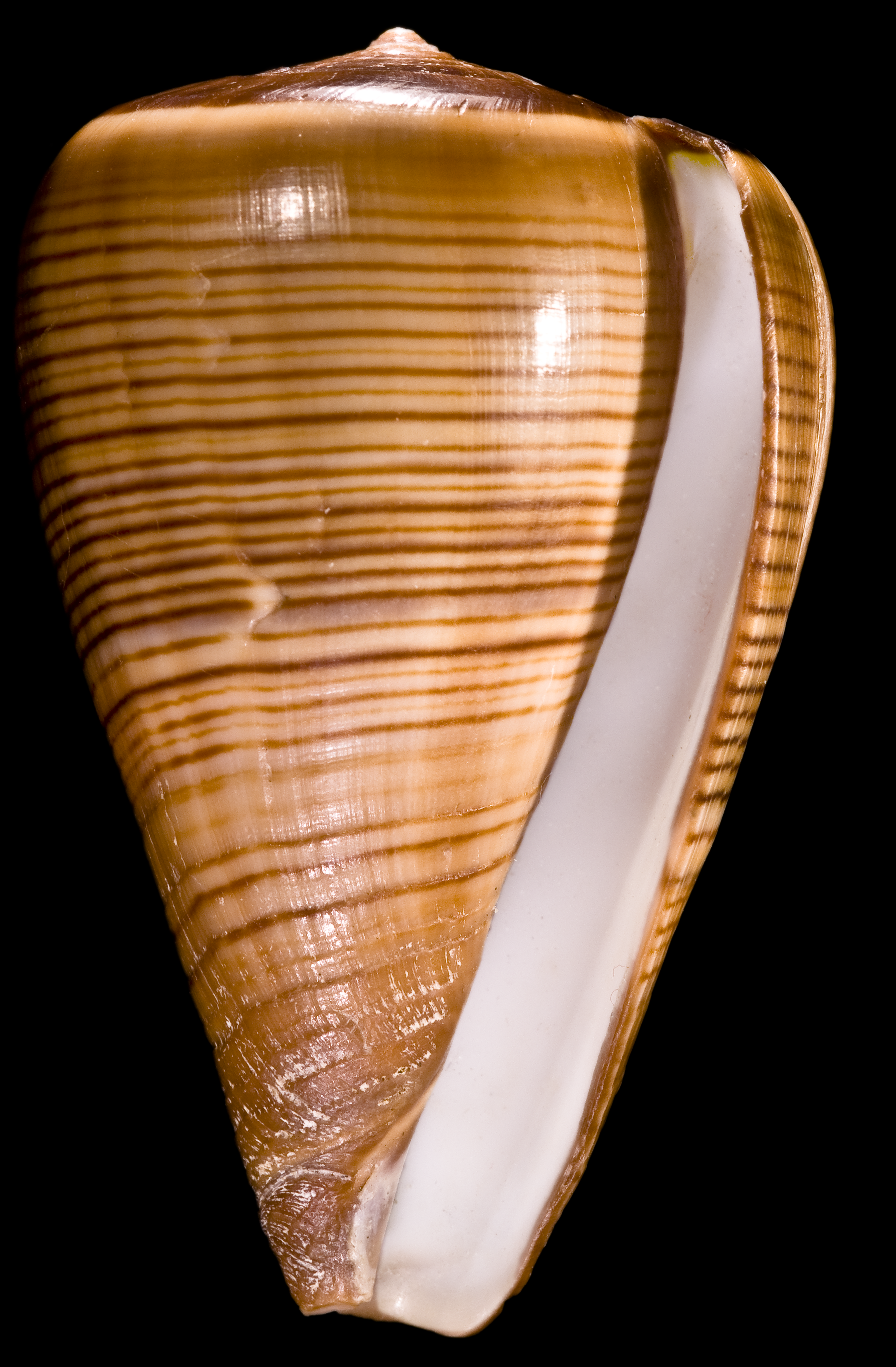 CONUS FIGULINUS (Linne 1758)- Conidae - 4.5cm